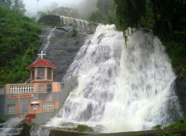 Elapeedika